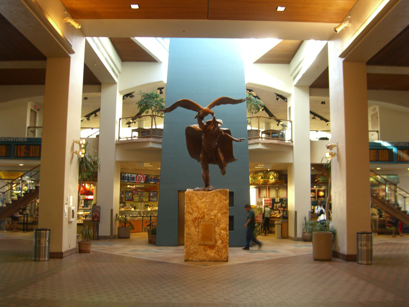 A statue in the Albuquerque International Sunport. Photographed by Luigi Novi. This photo is not in the public domain. It may, however, be used, modified and published for any purpose, free of charge, only if the photographer is properly credited, either by linking the photograph to this page, or with an easily visible credit to the photographer placed near the photo in each instance in which it is used. (See licensing information below.) Publication of this photo without this proper attribution constitutes copyright infringement. If you have any questions, you can contact me on my Wikipedia Talk Page.